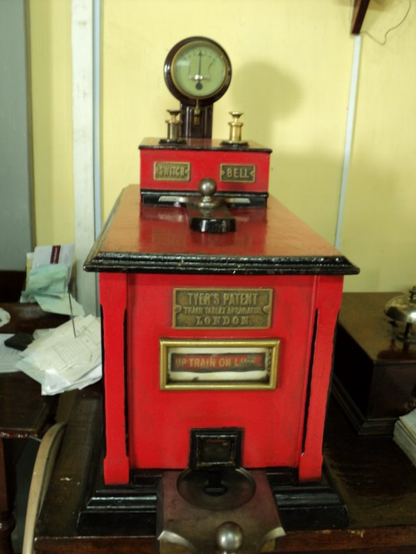 Tyre's Tablet machine used in Sri Lanka